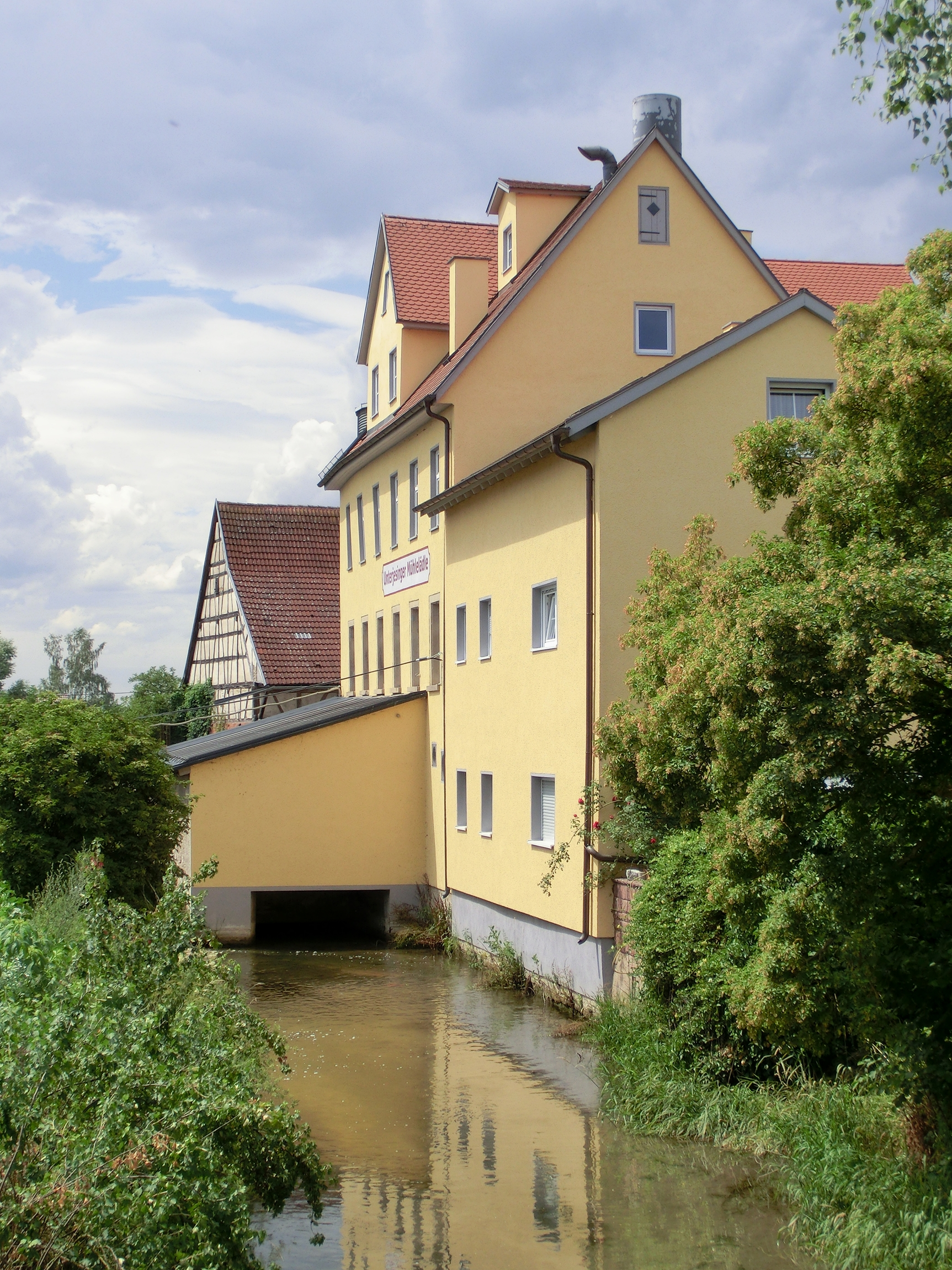 The mill of Unterjesingen, district of Tübingen, Baden-Württemberg.